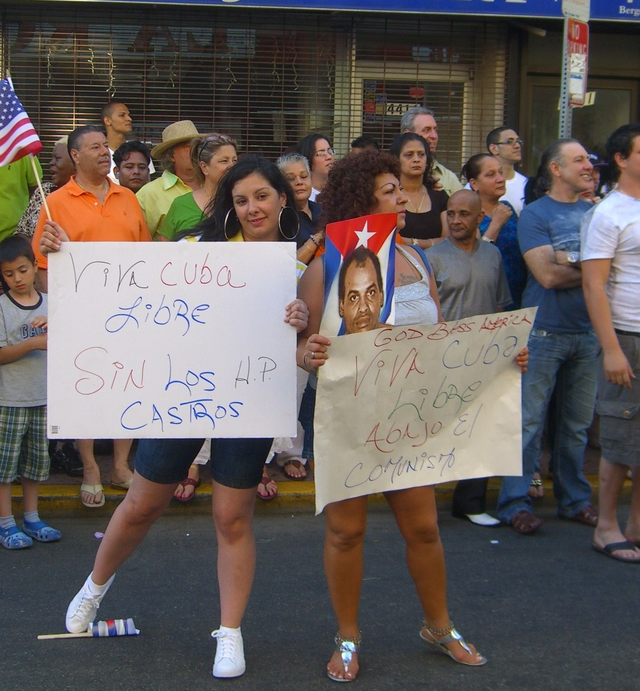 Revelers waving flags and signs of protest against the Castro regime during the 11th annual North Hudson Cuban Day Parade on Bergenline Avenue in Union City, New Jersey, June 6, 2010. Photo by Luigi Novi. This photo may be used and modified, for any purpose, only if the photographer is visibly credited in each instance in which it is used. (See licensing information below.) For more information on my photos, you can contact me here.